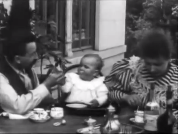 Le Repas (de bébé), from the movie by brothers Lumière, 1895